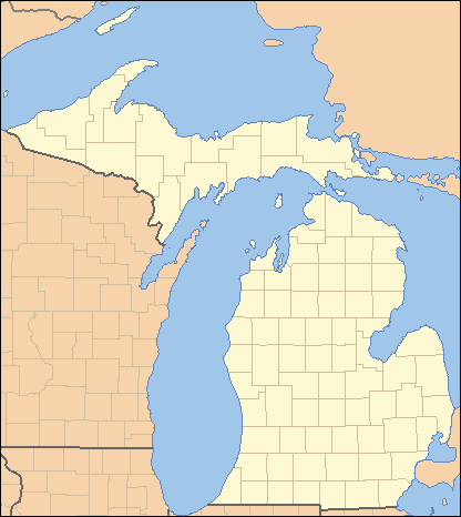 Locator Map of Michigan, United States